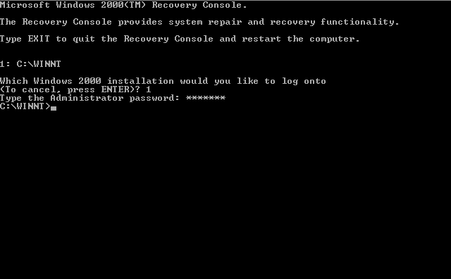 Screenshot of the Recovery Console of Windows 2000.